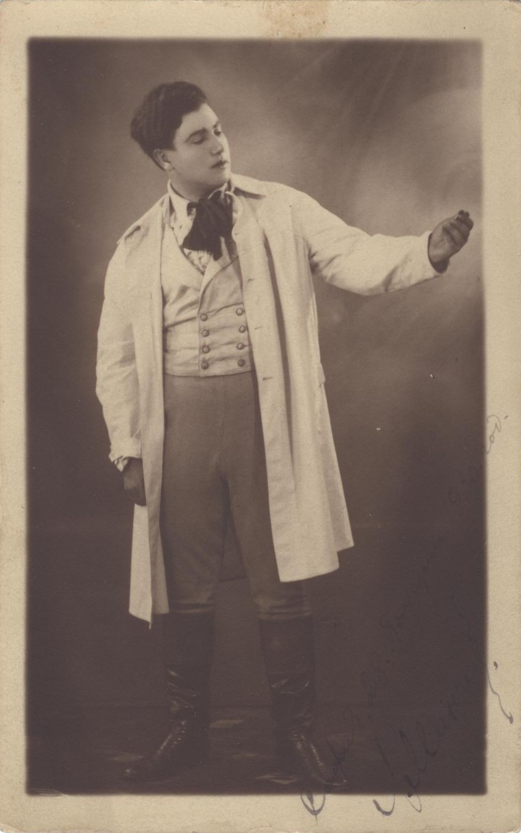 Bulgarian opera singer Lyuben Minchev